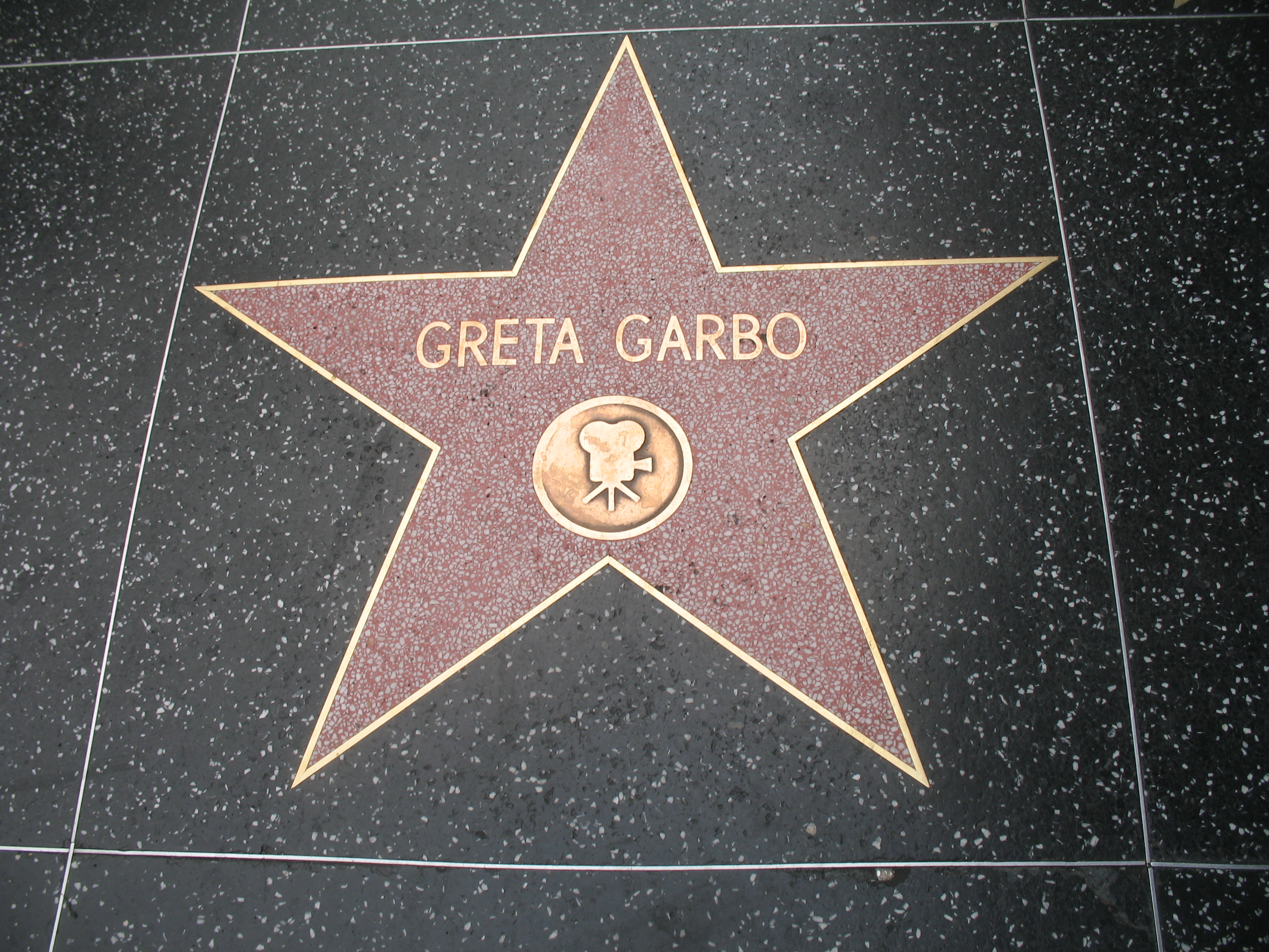 Greta Garbo's Star on the Hollywood Walk of Fame (2011)